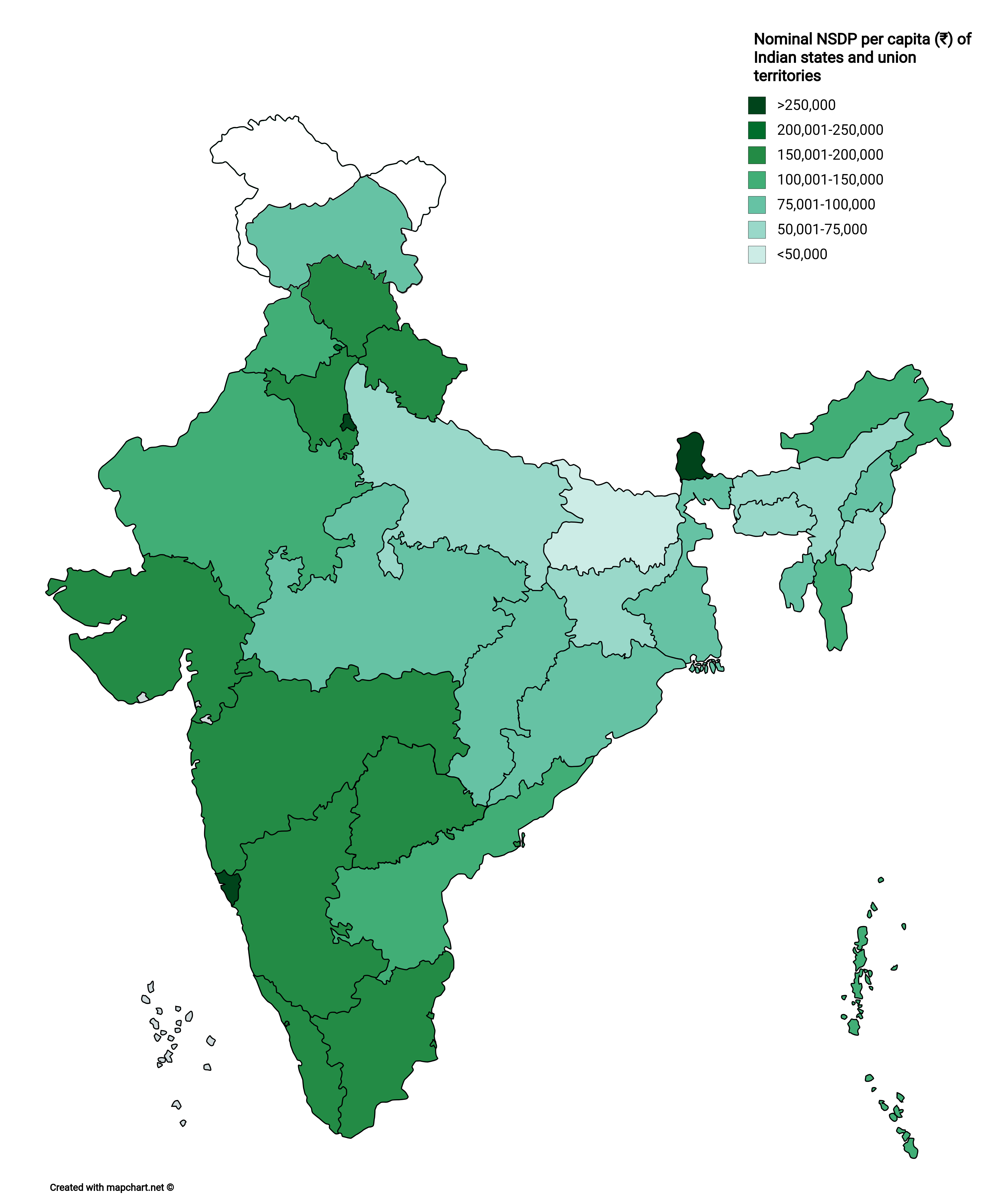 A chloropleth map showing nominal NSDP per capita of Indian states and union territories in INR terms